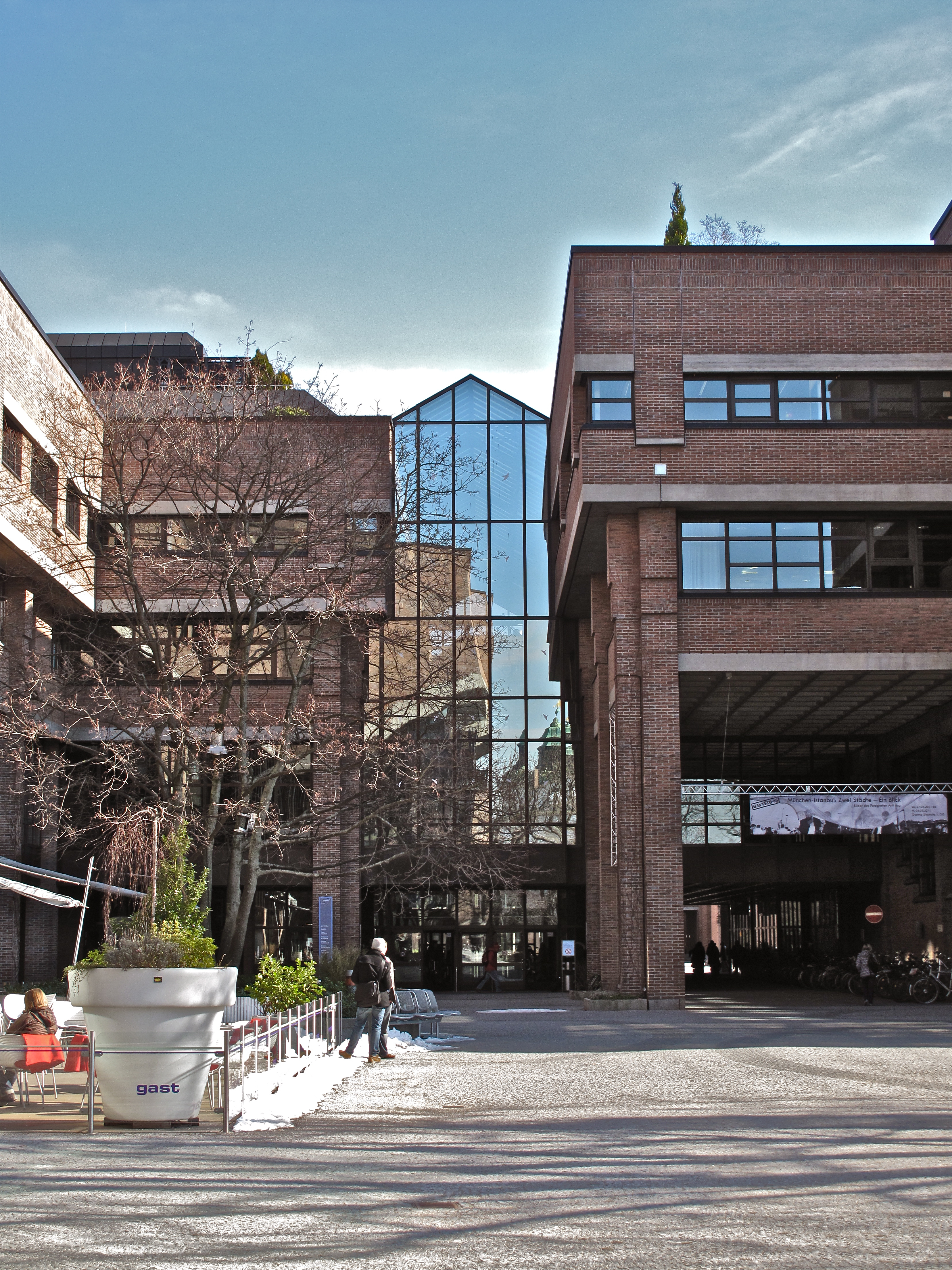 The Glashalle (entrance) of the Gasteig – the cultural centre of the city of Munich.